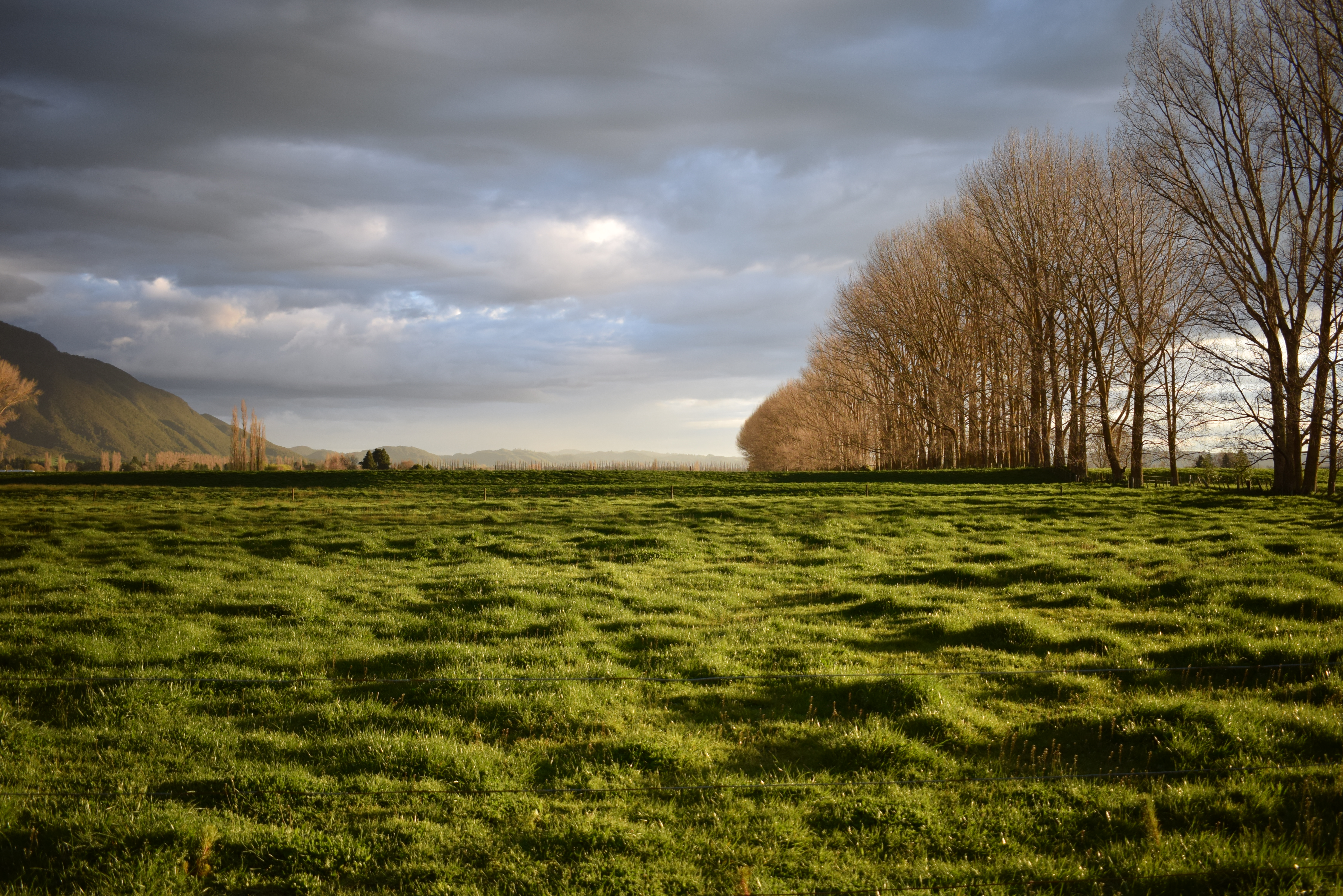 Looking SW along the Ikawhenua range from a farm on Troutbeck rd.